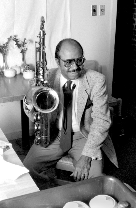 Benny Golson, at Kimball's, San Francisco with the Jazztet, 7/21/85. Photo by Brian McMillen /